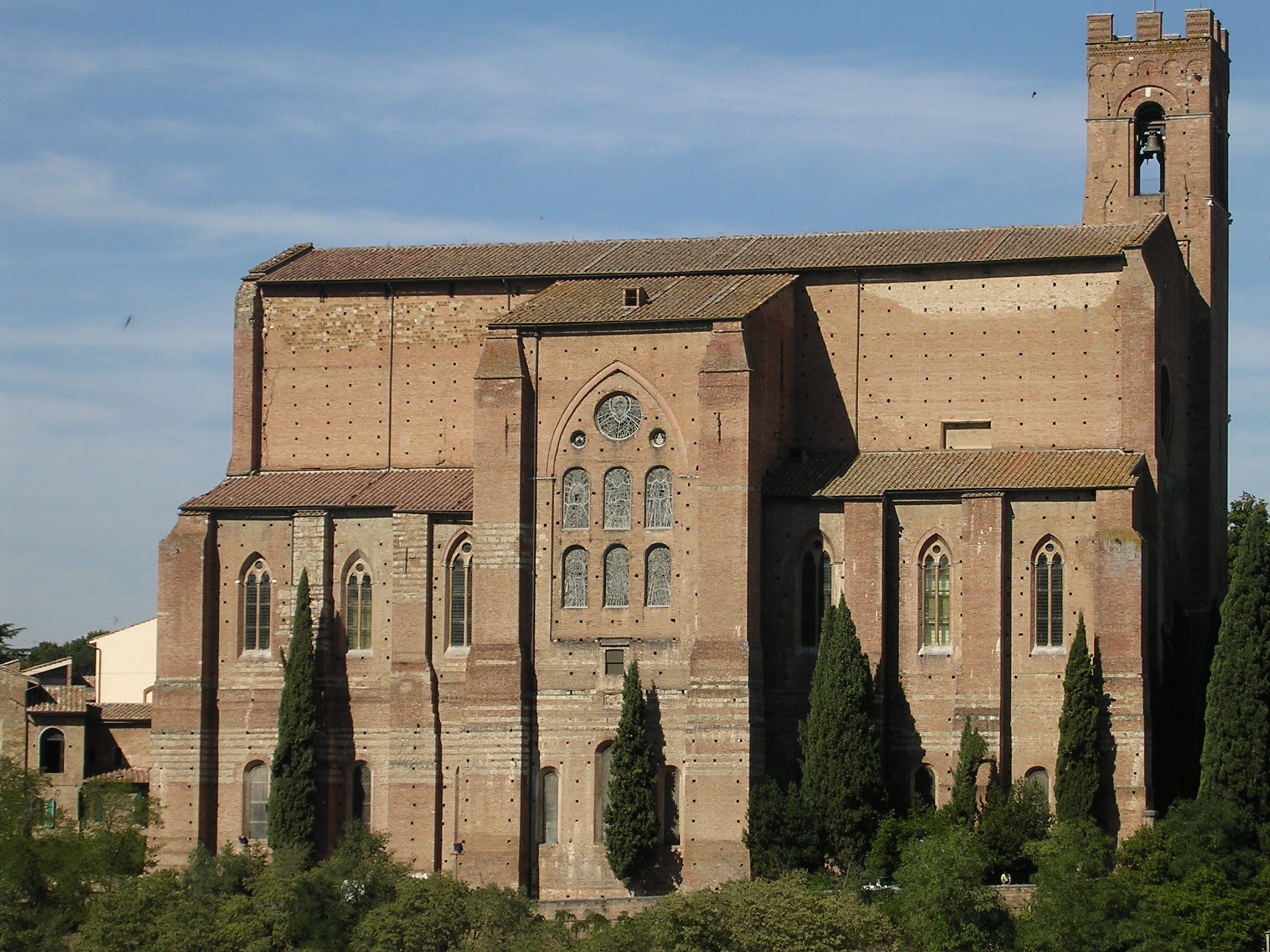 San Domenico Church in Siena, Italy